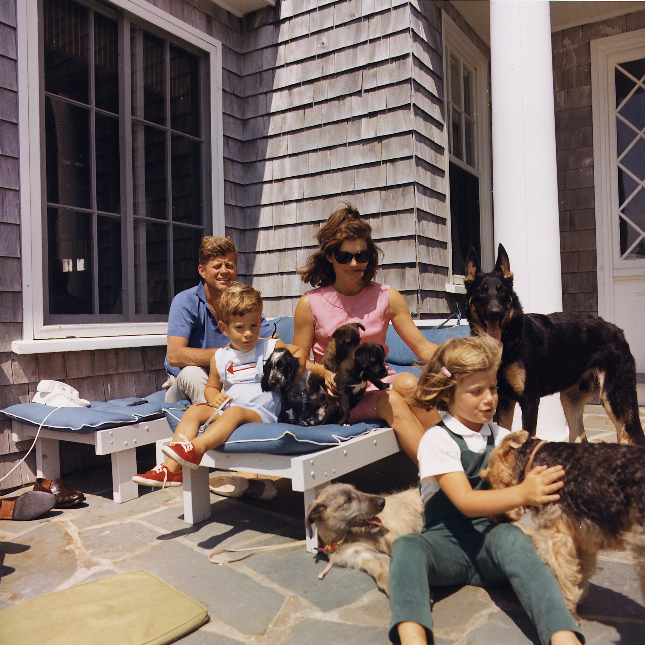 Hyannisport Weekend. President Kennedy, John F. Kennedy Jr., Mrs. Kennedy, Caroline Kennedy. Dogs: Clipper ( standing ), Charlie ( with Caroline ), Wolf ( reclining ), Shannon ( with John Jr. ), two of Pushinka's puppies ( with Mrs. Kennedy ).